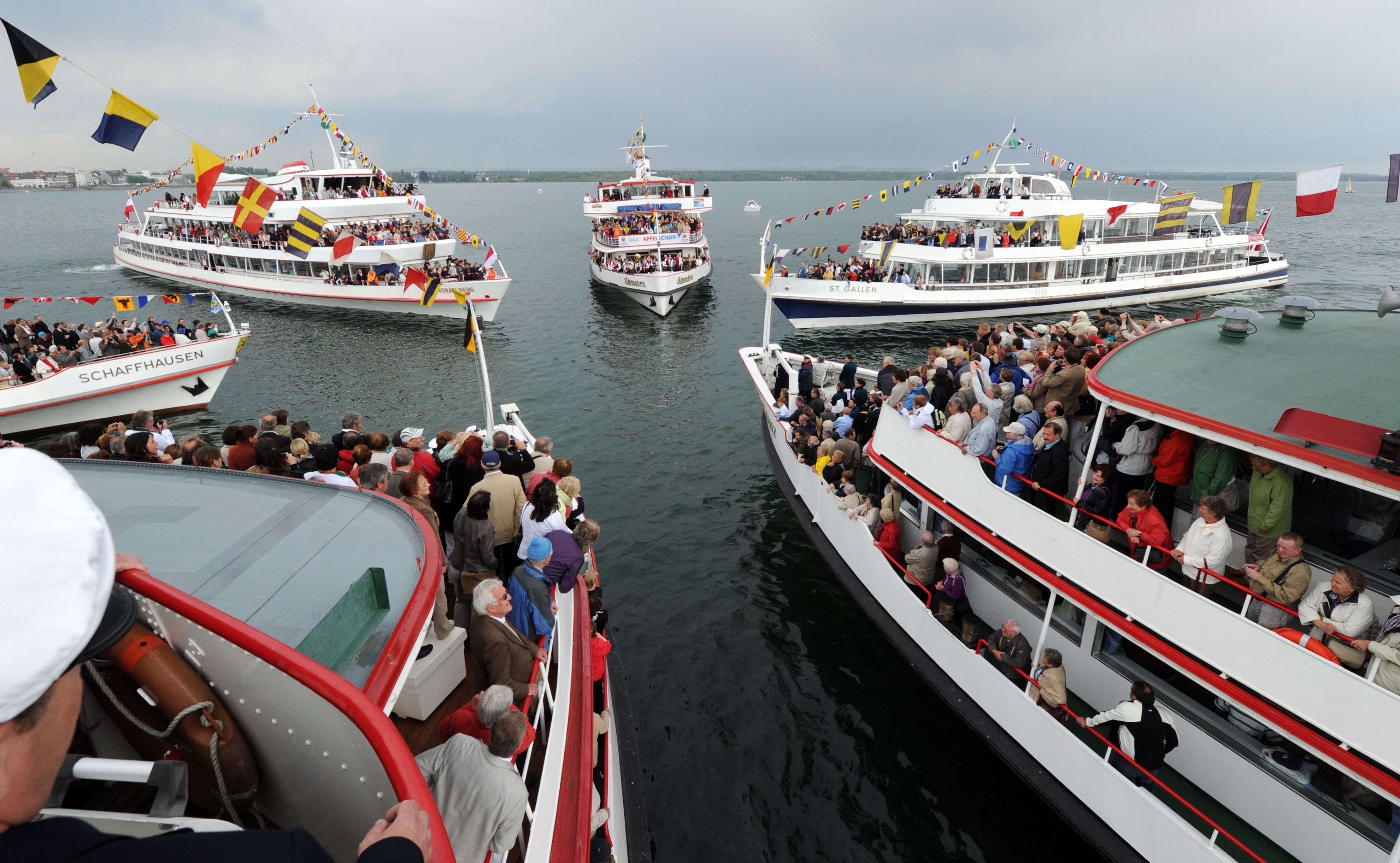 The members of the VSU open the annual season by forming a star with some ships of the fleet.